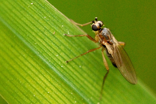 Lonchoptera lutea from Commanster, Belgian High Ardennes .